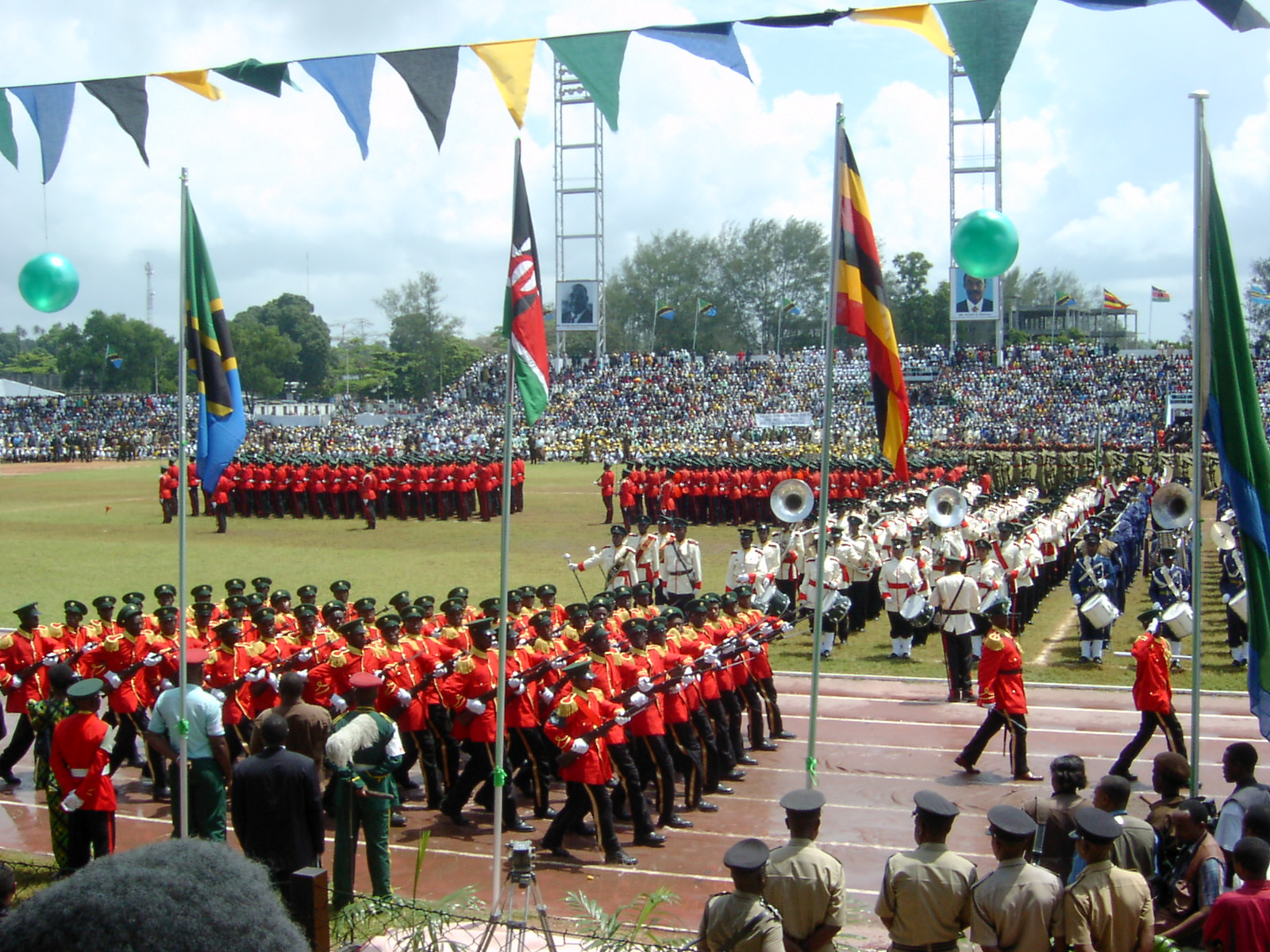 Parades in the Amani Stadium mark the 40th anniversary of Zanzibar's 1964 revolution on 12 January 2004.